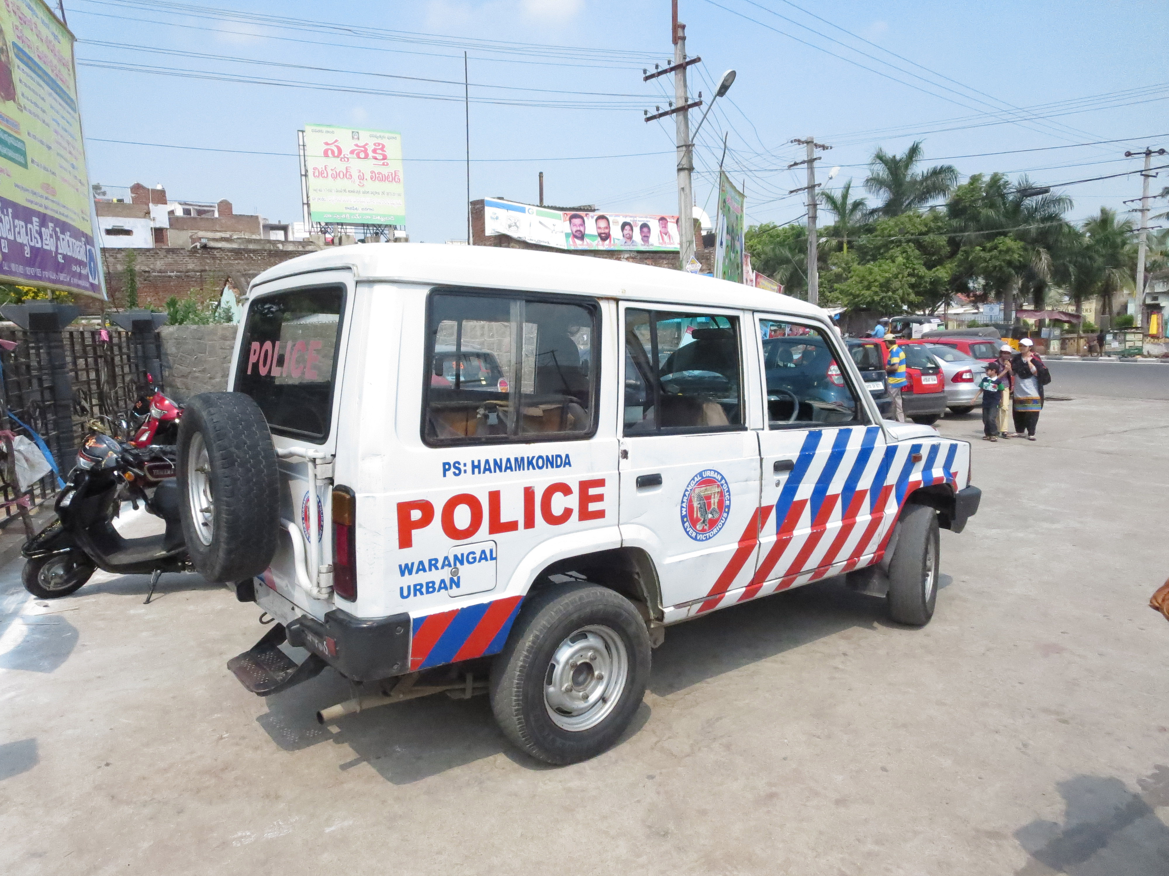 A vehicle belonging to Warangal Police